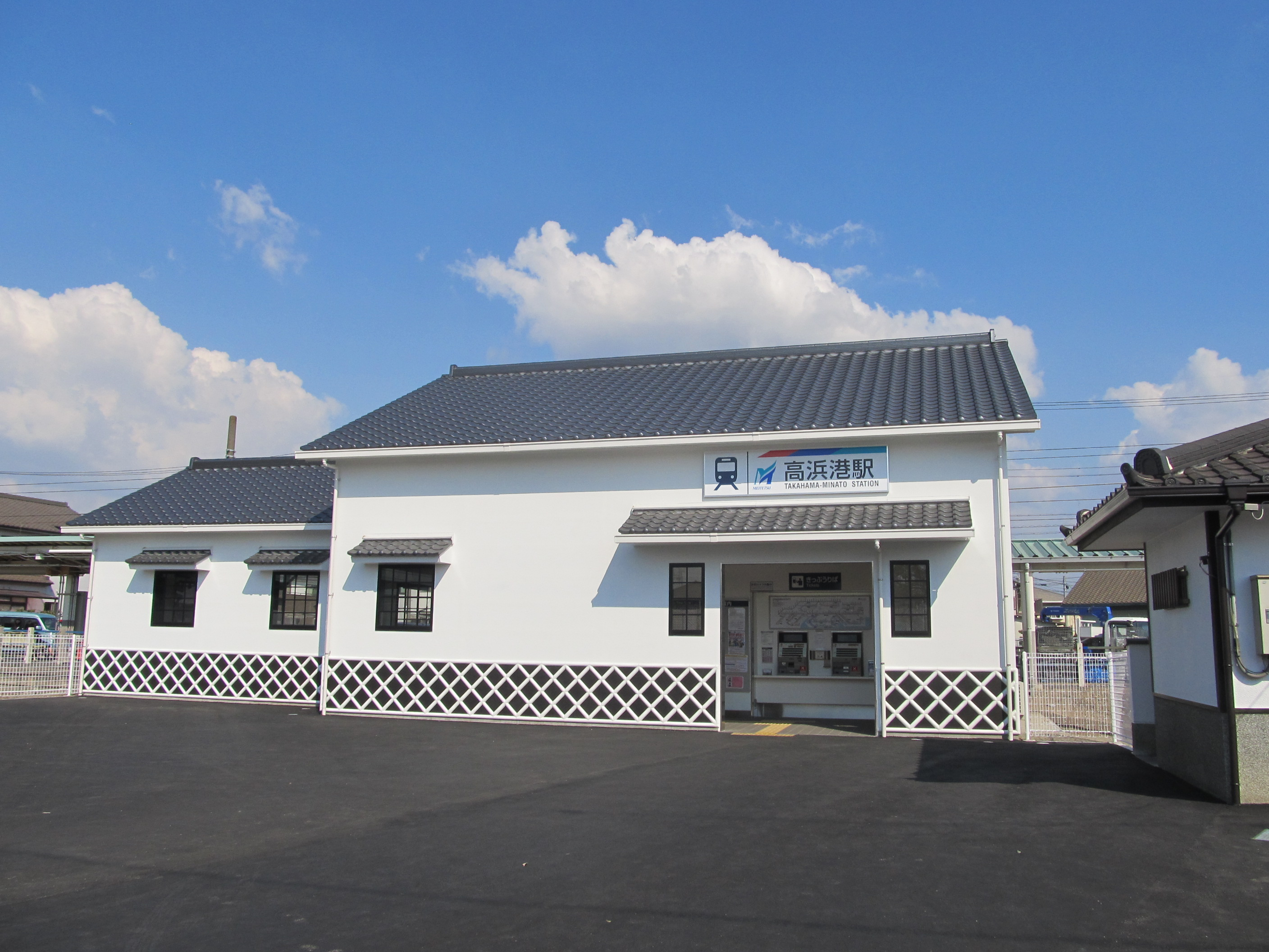 Nagoya Railroad Mikawa Line Takahama Minato Station Building